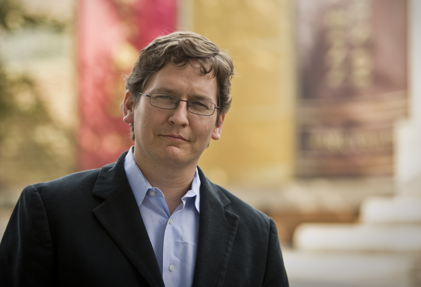 John Wilbanks Portrait by Nick Vedros. Taken in Kansas City, MO, 14 September 2009, by Nick Vedros. Copyright by Nick Vedros, licensed to the public under CC BY SA.